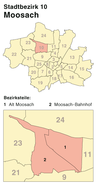 Boroughs of Munich map series